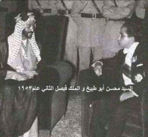 Mr Mohsin and King Second Faisal